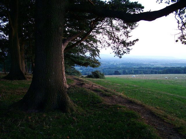 Bircher common Overlooking Croft and Yarpole from the edge of oaker coppice